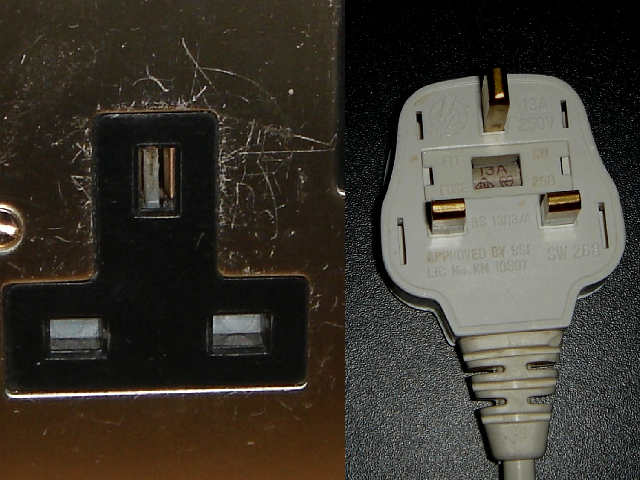 Plug and outlet (Type G)